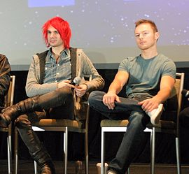 New Series Panel at 2011 Chicago TARDIS Convention